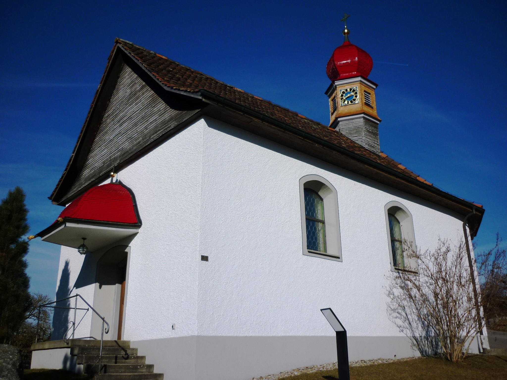 St. Elisabetha Bona Chapel Wallenwil, Eschlikon TG, Switzerland, build 1775